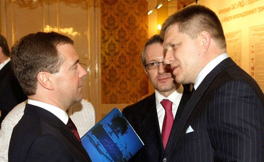 With Prime Minister of Slovakia Robert Fico.